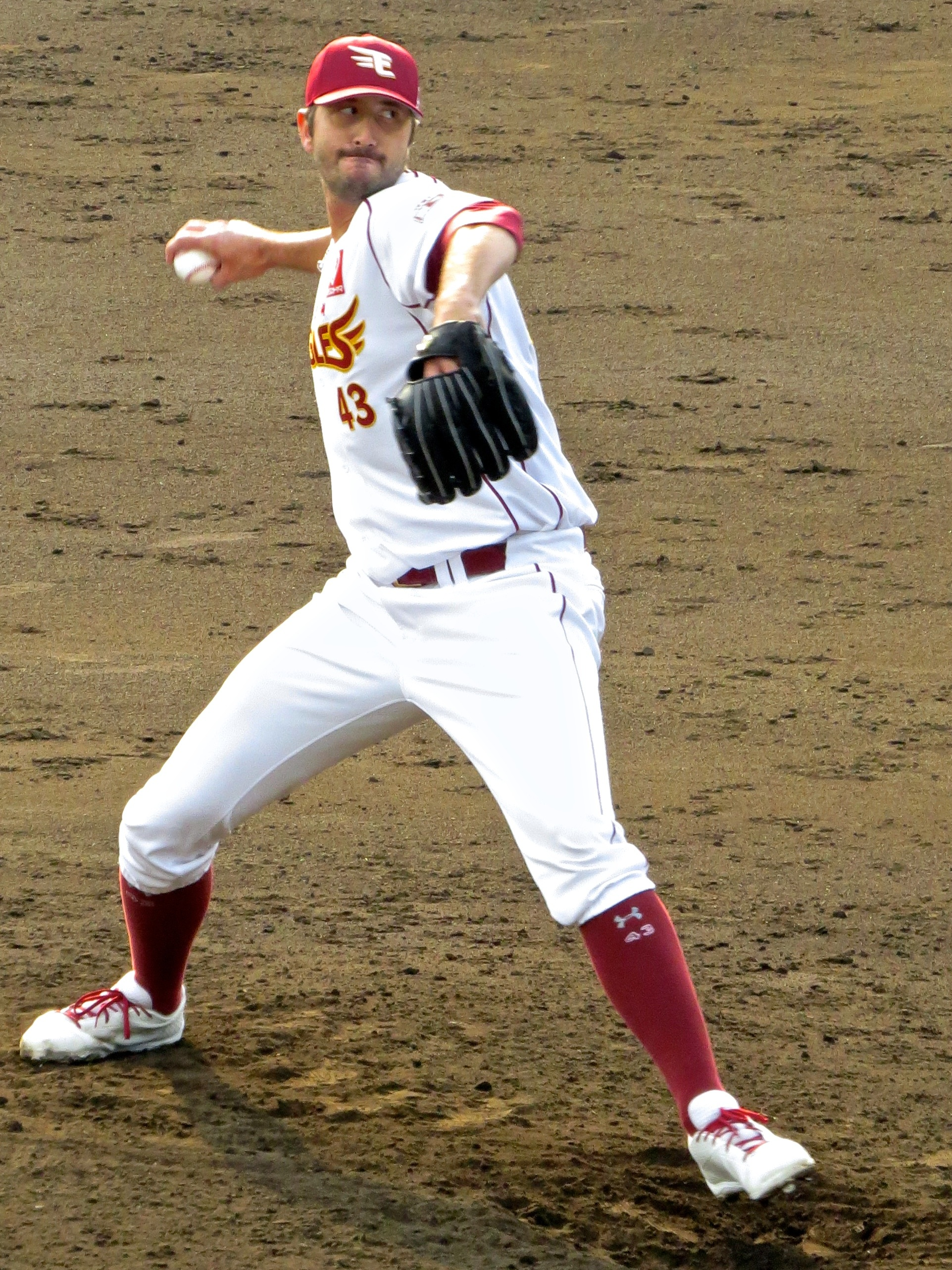 Kam Mickolio, pitcher of the Tohoku Rakuten Golden Eagles, at Saitama Municipal Urawa Baseball Stadium